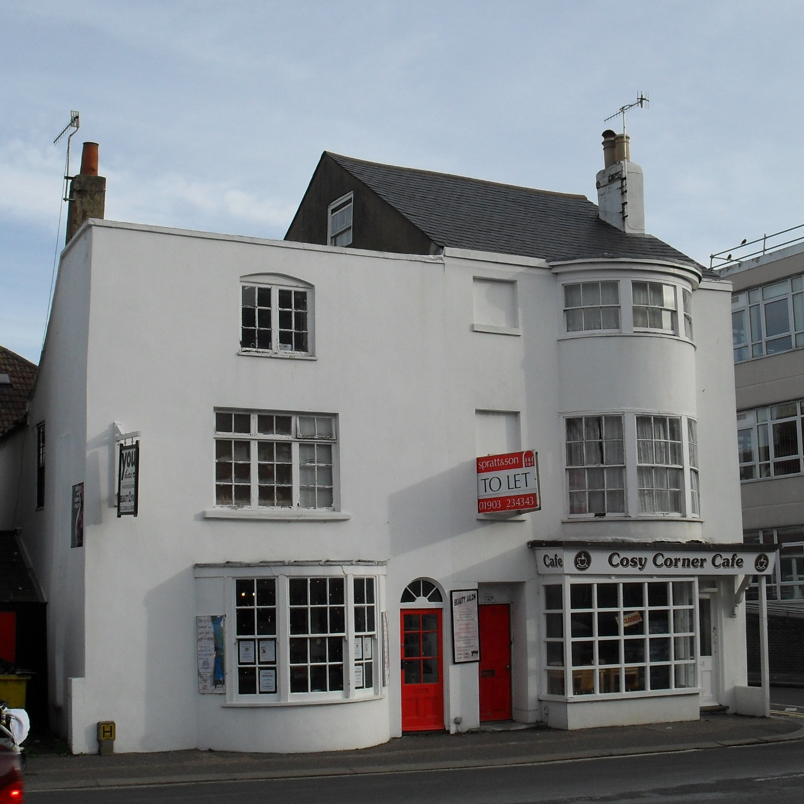 42 (left) and 40 (right) High Street, Worthing, West Sussex, England. 40 is early 19th-century, 42 probably mid-19th century. Both have stuccoed fronts, and the ground floor of 40 now has a shop front.